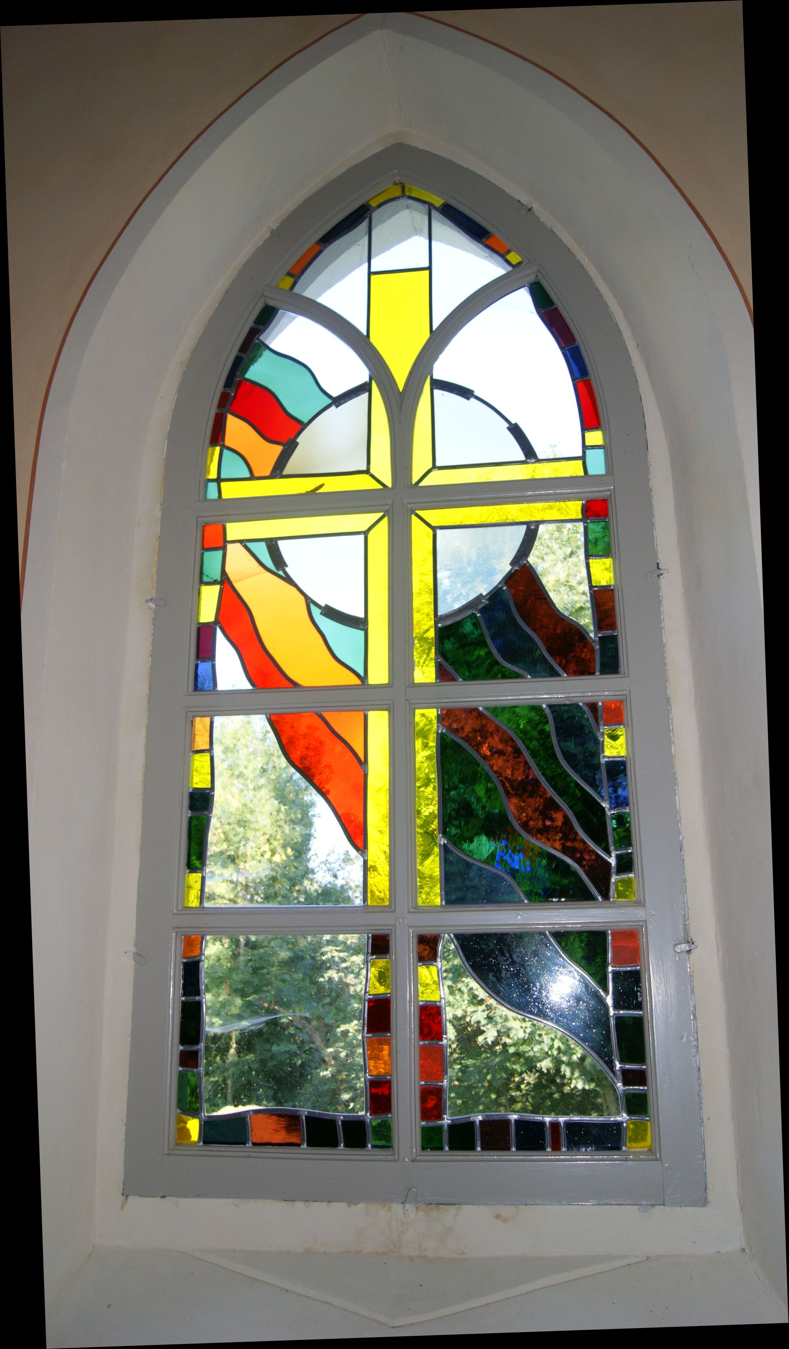 Chapel St. Michael in Farnach, municipality Bildstein, Vorarlberg, Austria. Glass window chancel.